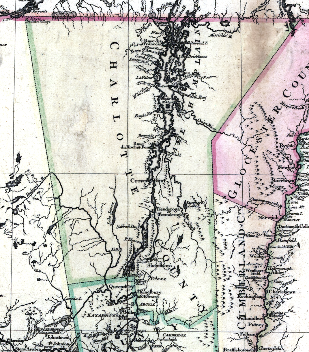 Charlotte County from a map of the provinces of New York and New Jersey